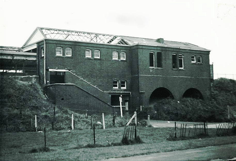 The now demolished Filton Junction station, 06/77.